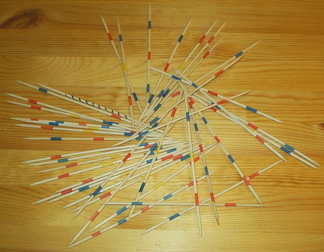 Mikado game on wooden table